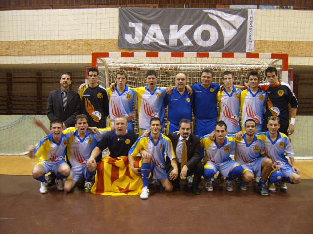 National Futsal Under 21 Men Team of Catalonia (European Championship 2009)